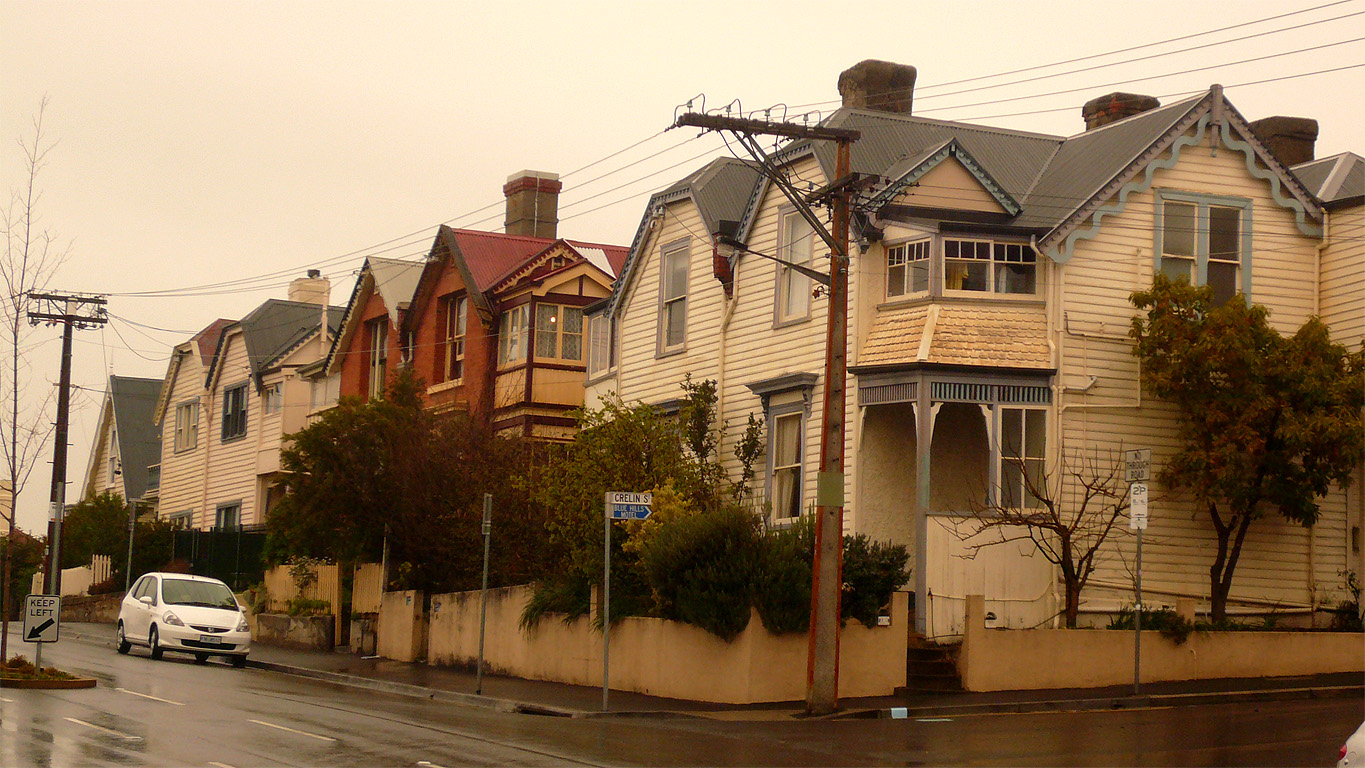 Houses in Battery Point, Australia. Corner of St Georges Terrace and Crelin Street. The two conjoined houses, 60/62 St Georges Terrace at the corner, and 56/58 behind it, are listed on the Tasmanian Heritage Register.